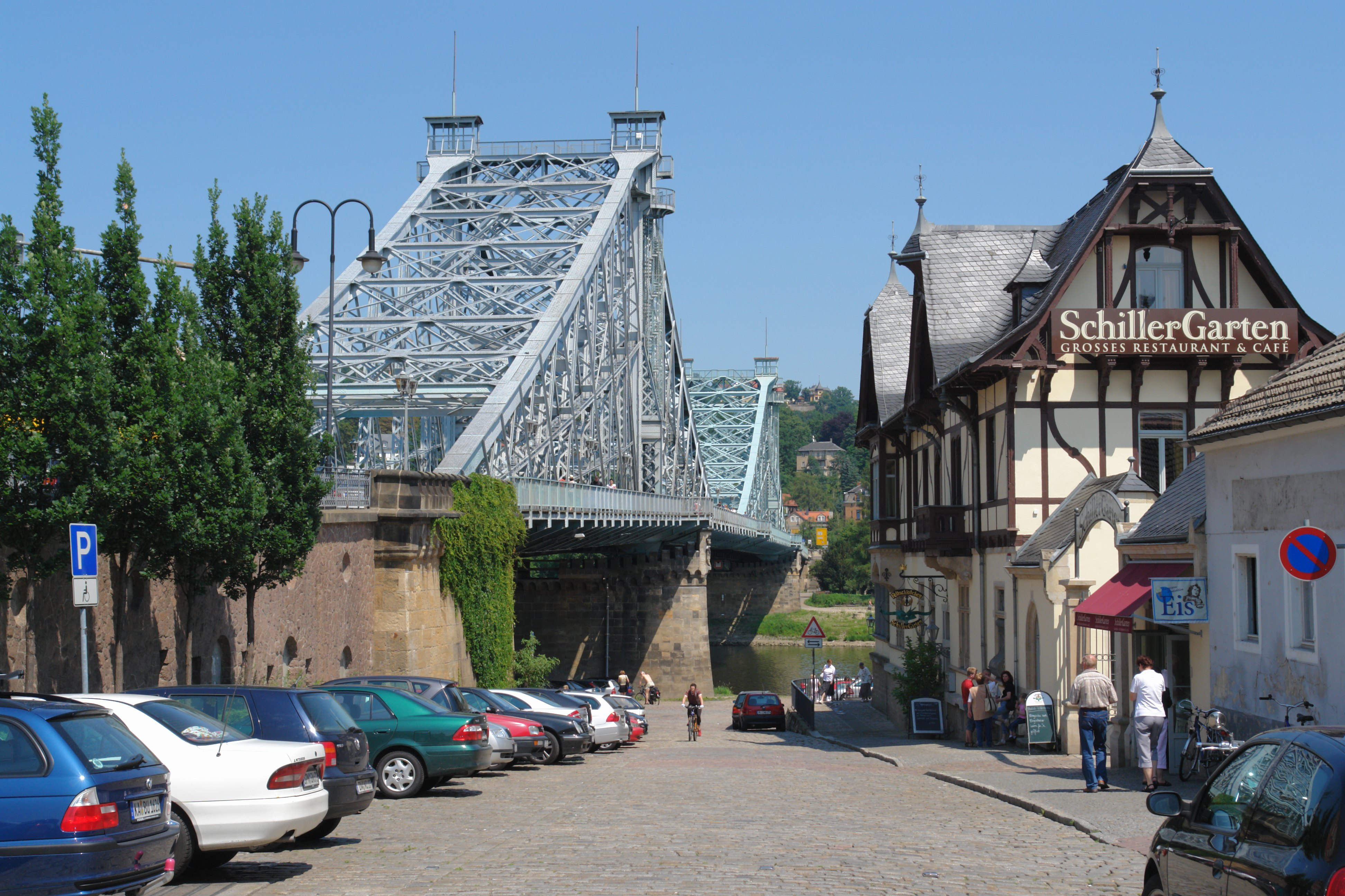 View at the Elbe bridge Blue Wonder and the restaurant Schillergarten in Dresden-Blasewitz